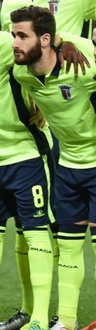 Rafa Silva